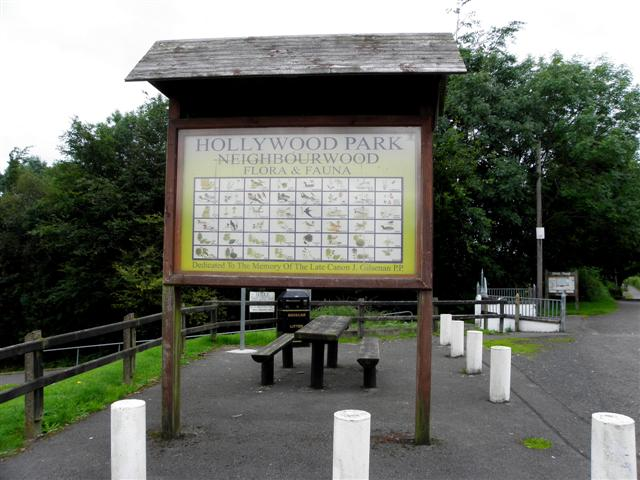 Hollywood Park notice board